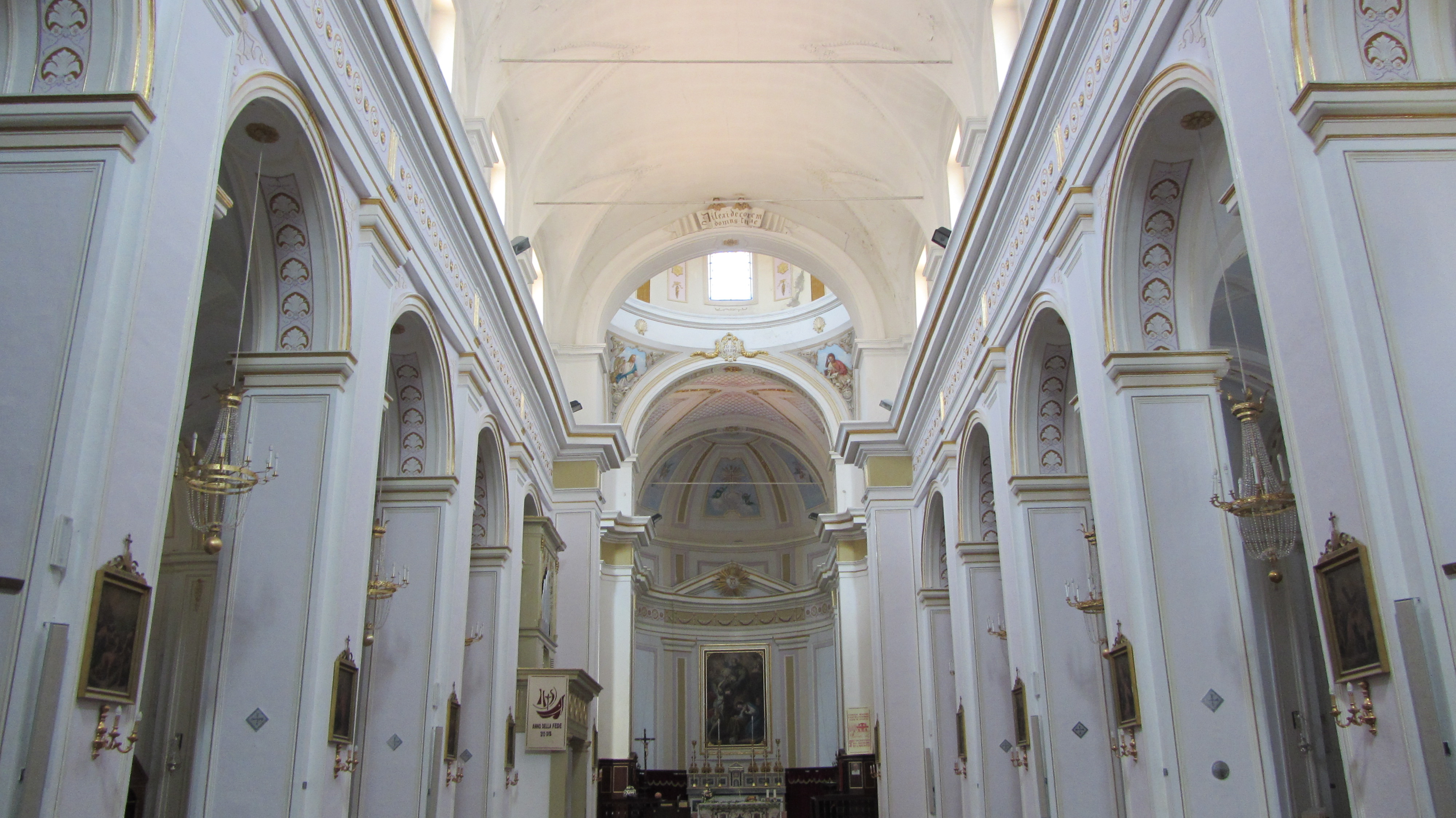 casteltermini Agrigento sicily Italy italia chiesa madre mother church